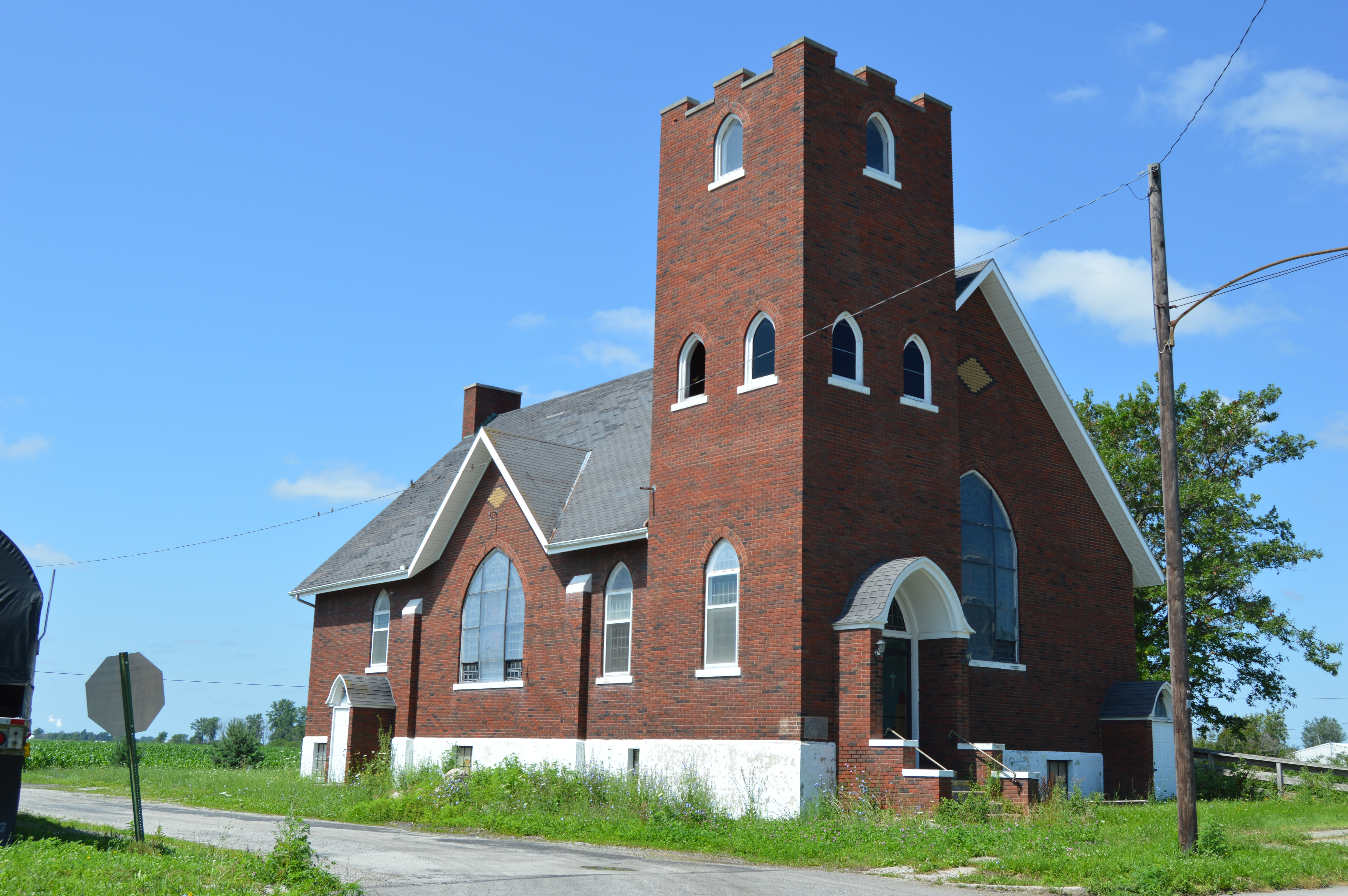 Front and eastern side of the former Golden Rule United Methodist Church (United Brethren when built in 1931), located at the junction of Main and East Streets in Belmore, Ohio, United States.